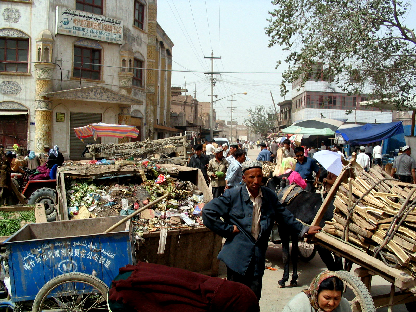 Street scene in Kashgar, Xinjiang, China